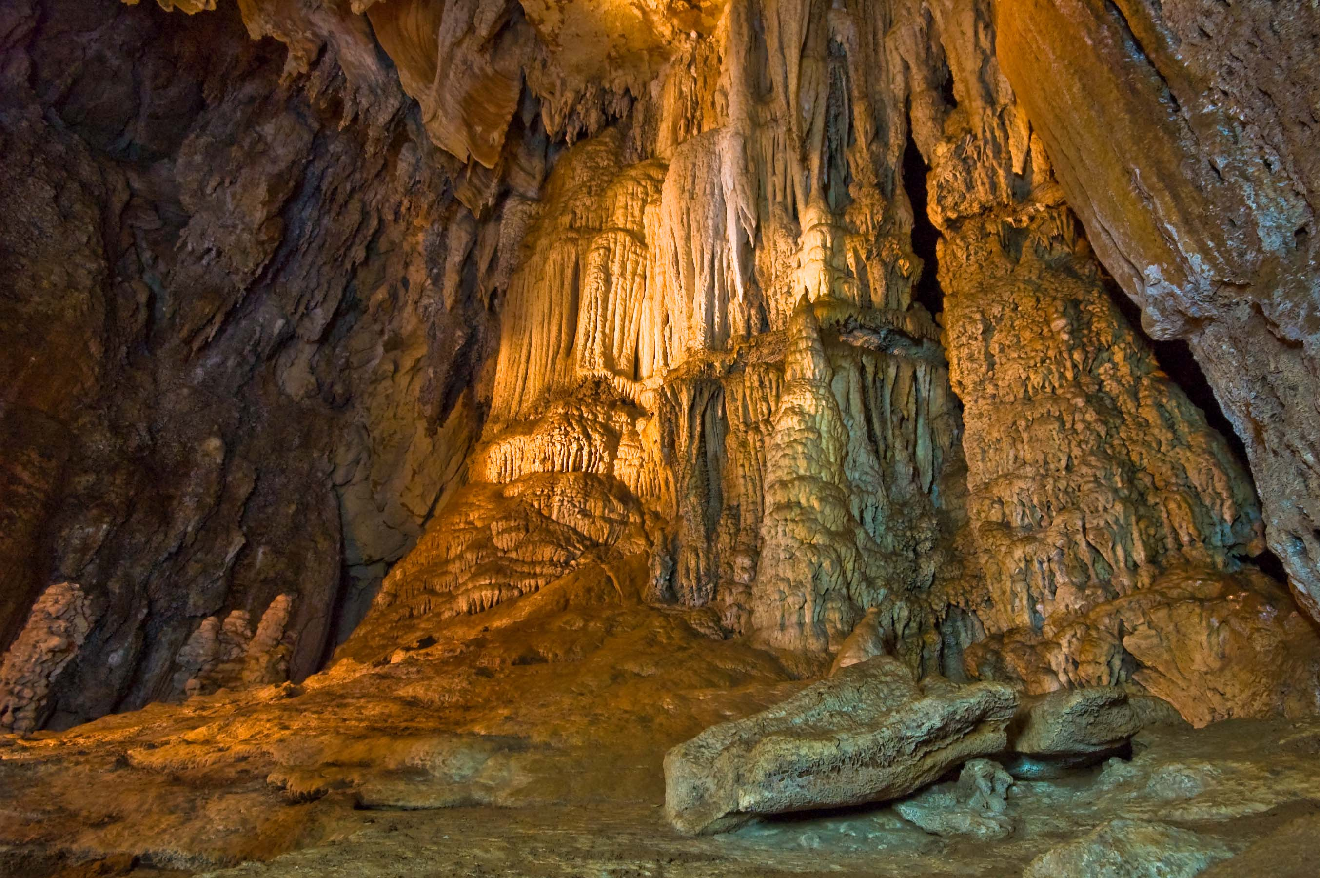 Guided tour through cave Chao Lan Reservoir Khao Sok Thailand